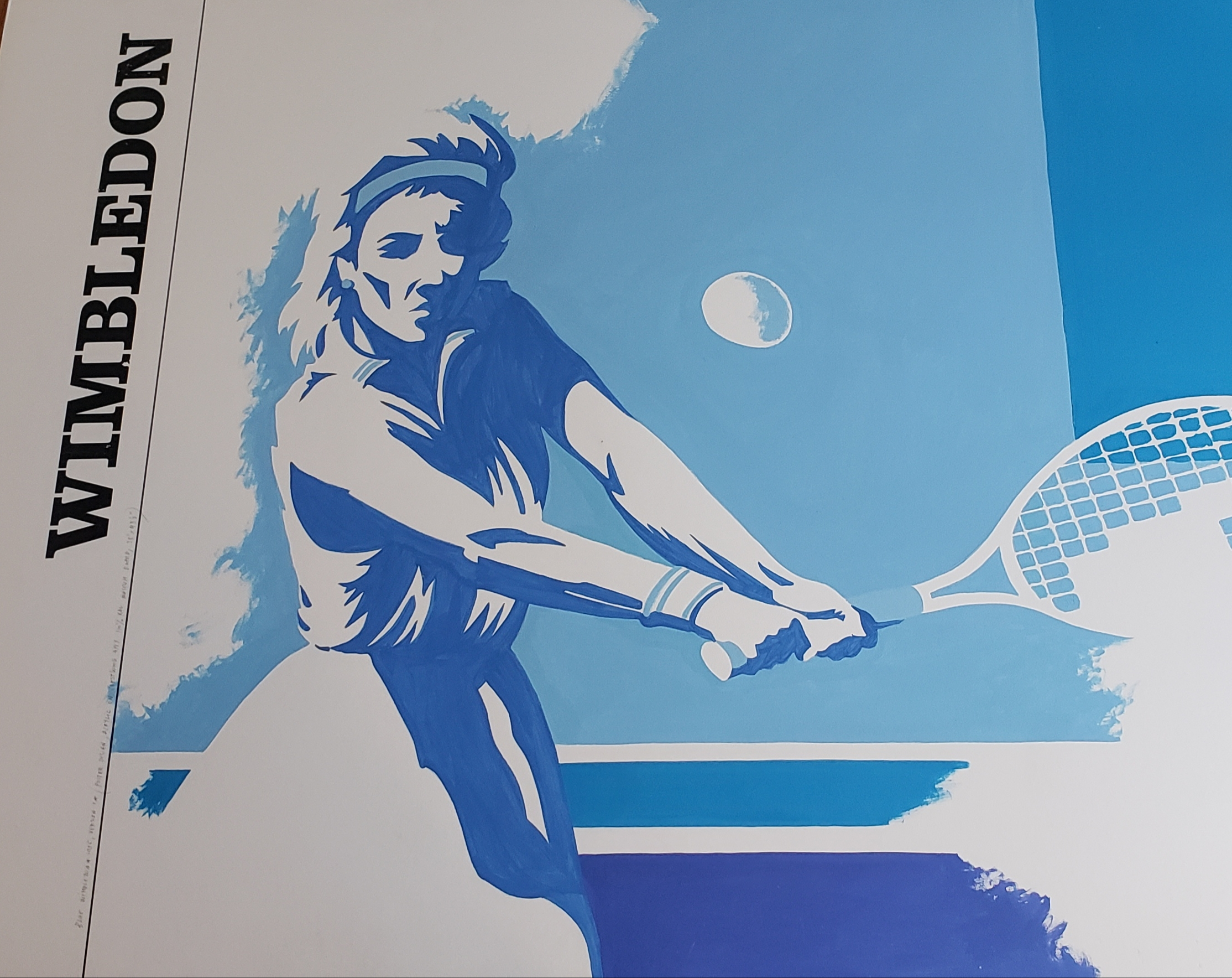 One of Pecsenke's numerous sporting related works